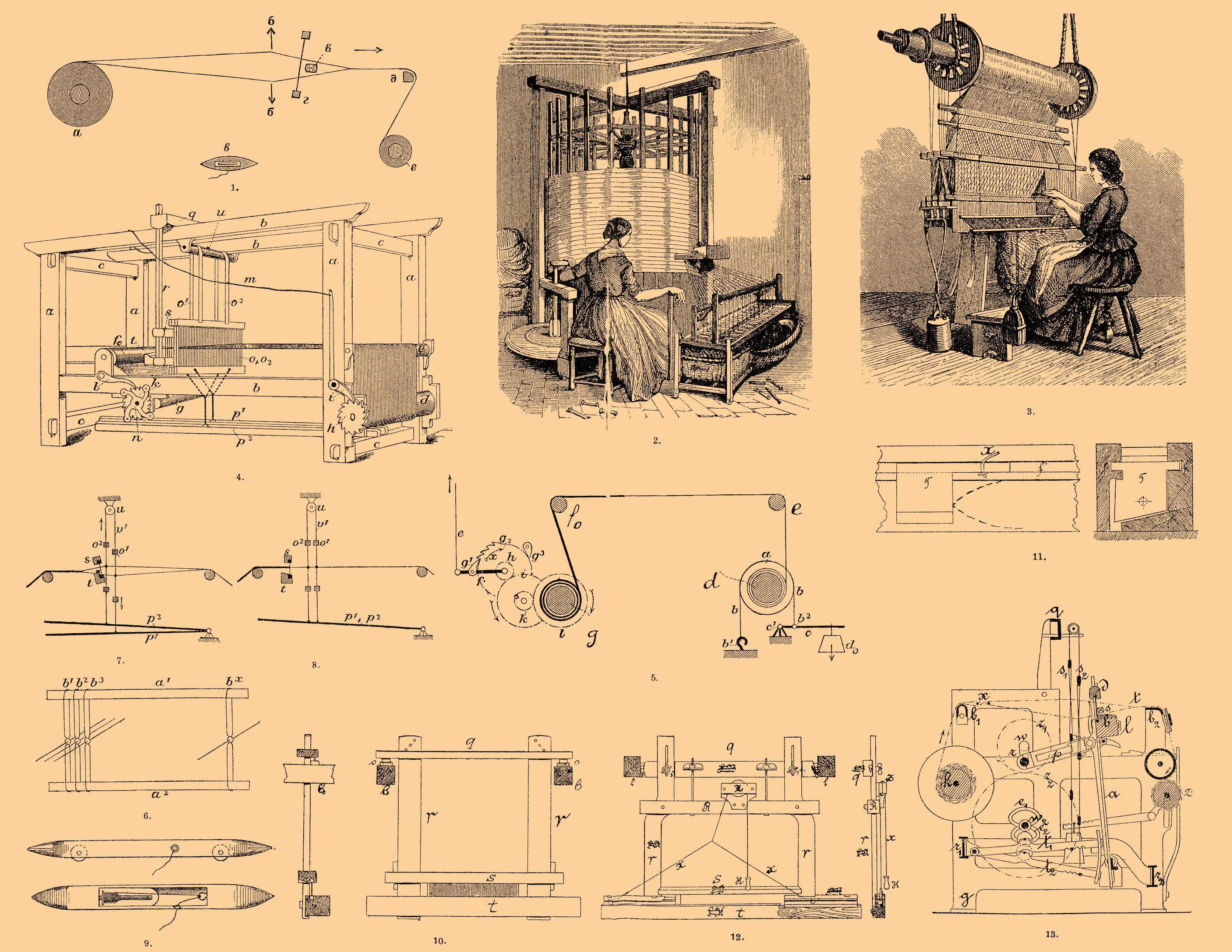 Illustration from Brockhaus and Efron Encyclopedic Dictionary(1890—1907)